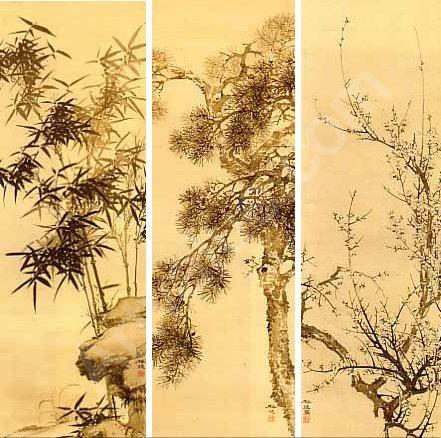 Pine, bamboo and plum